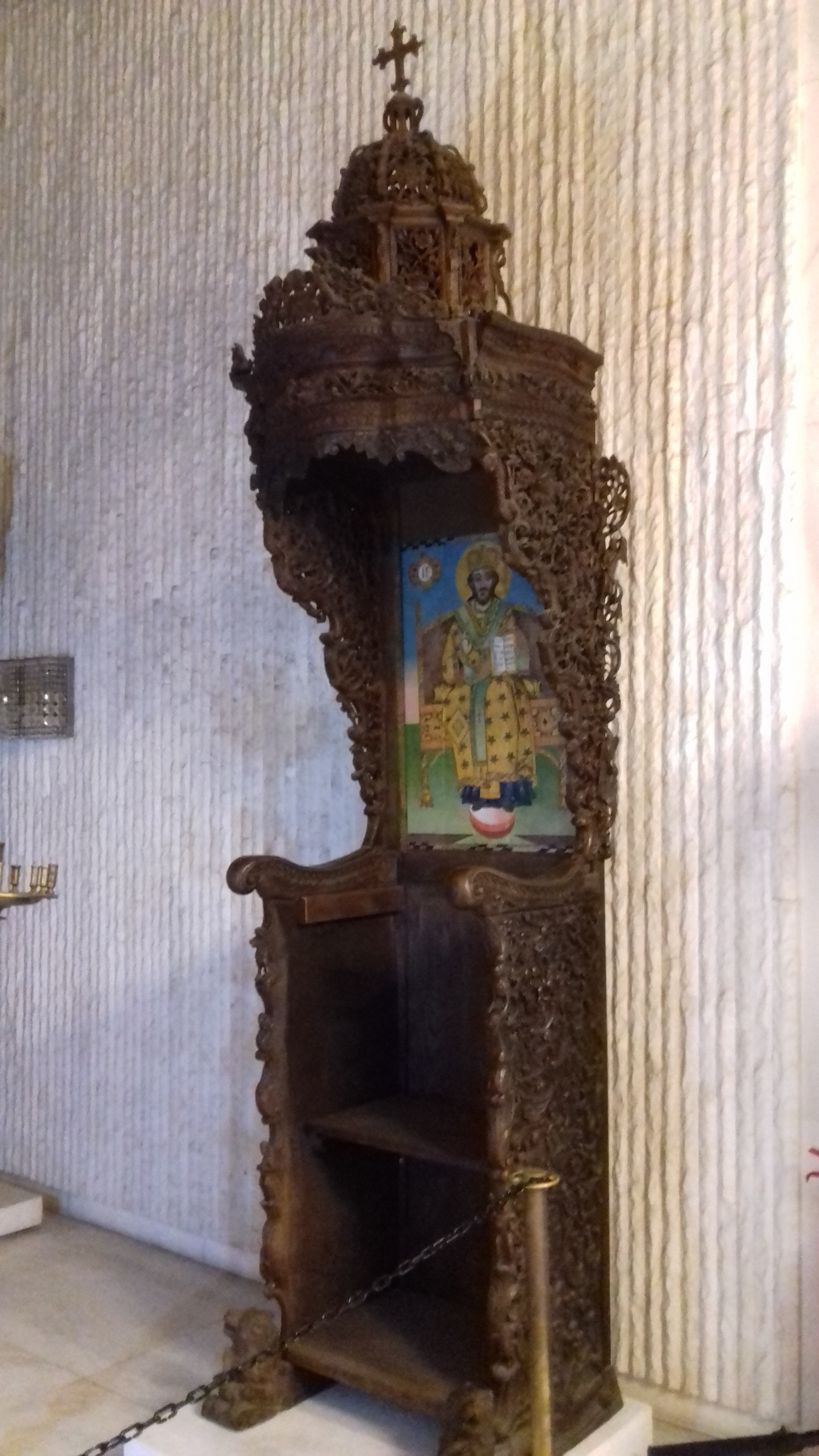 Bishop's Throne in National History Museum, Bulgaria, Debar School, 1848